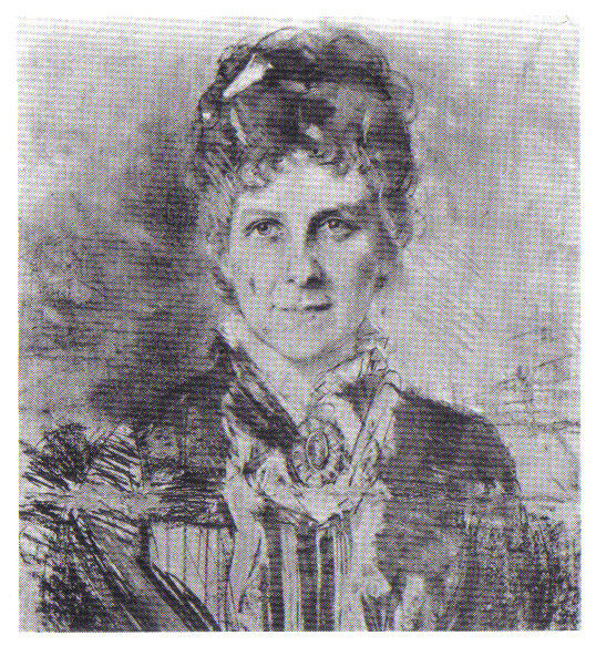 Countess Marie Schleinitz